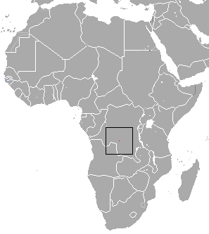 Greater Congo Shrew (Congosorex polli) range